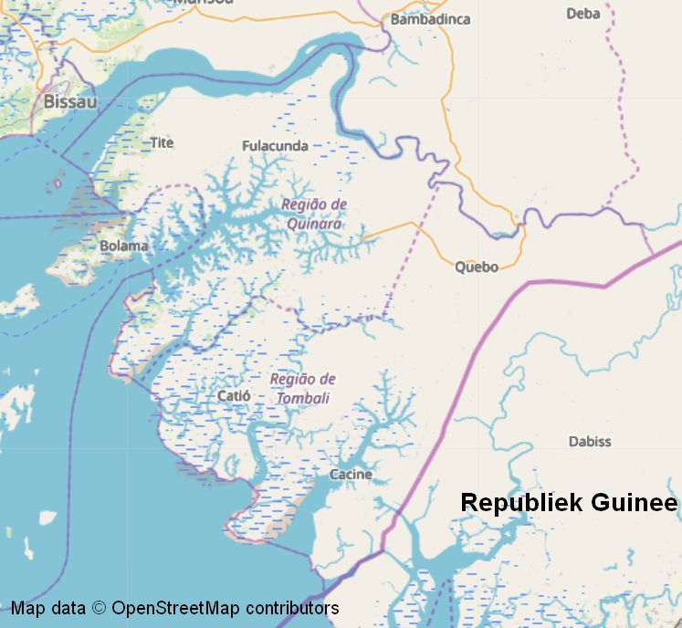 Map of Tombali Region, Guinea Bissau with its capital Catió neighbouring province Quinará and neighbouring country Republic of Guinea